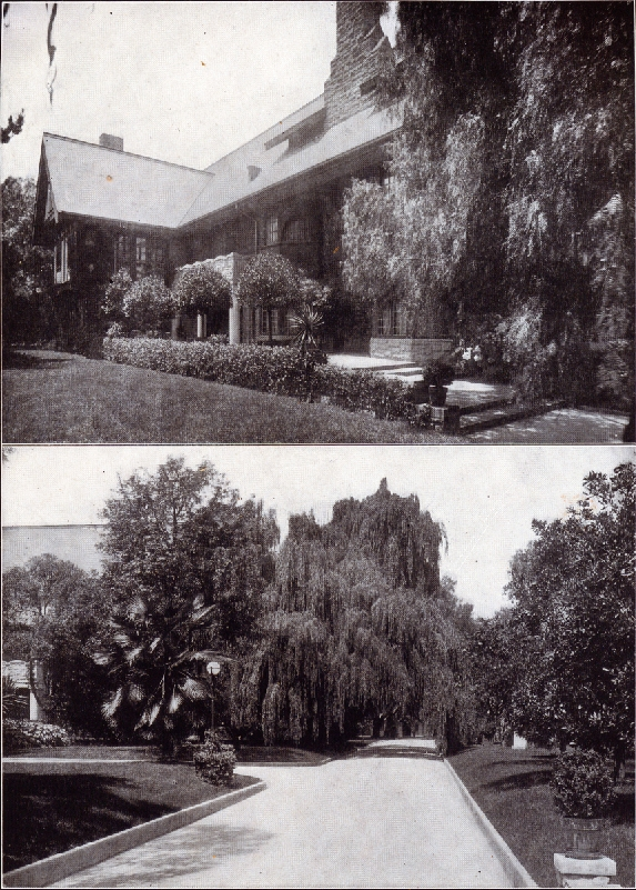 Residence of Mrs. William Edmund Ramsay 2425 Western Avenue